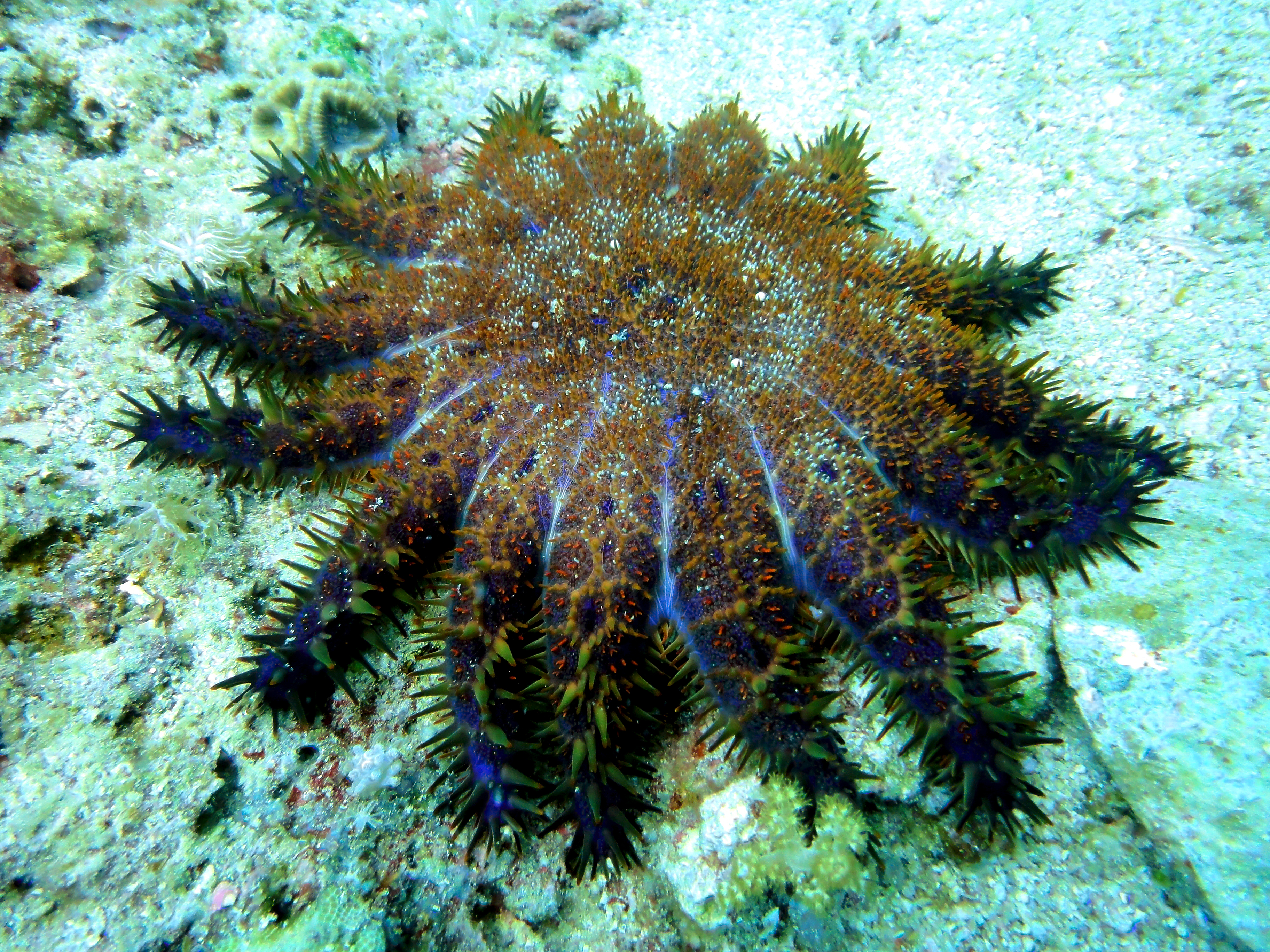 A rare short-spined Crown of Thorns Starfish (Acanthaster brevispinus) at Malapascuas Island, Philippines. This picture appears to be the first photograph of this species alive in its environment, previous known specimens having been trawled.